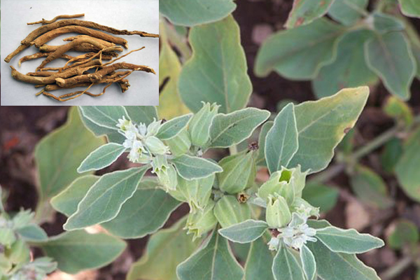 Aswagandha roots